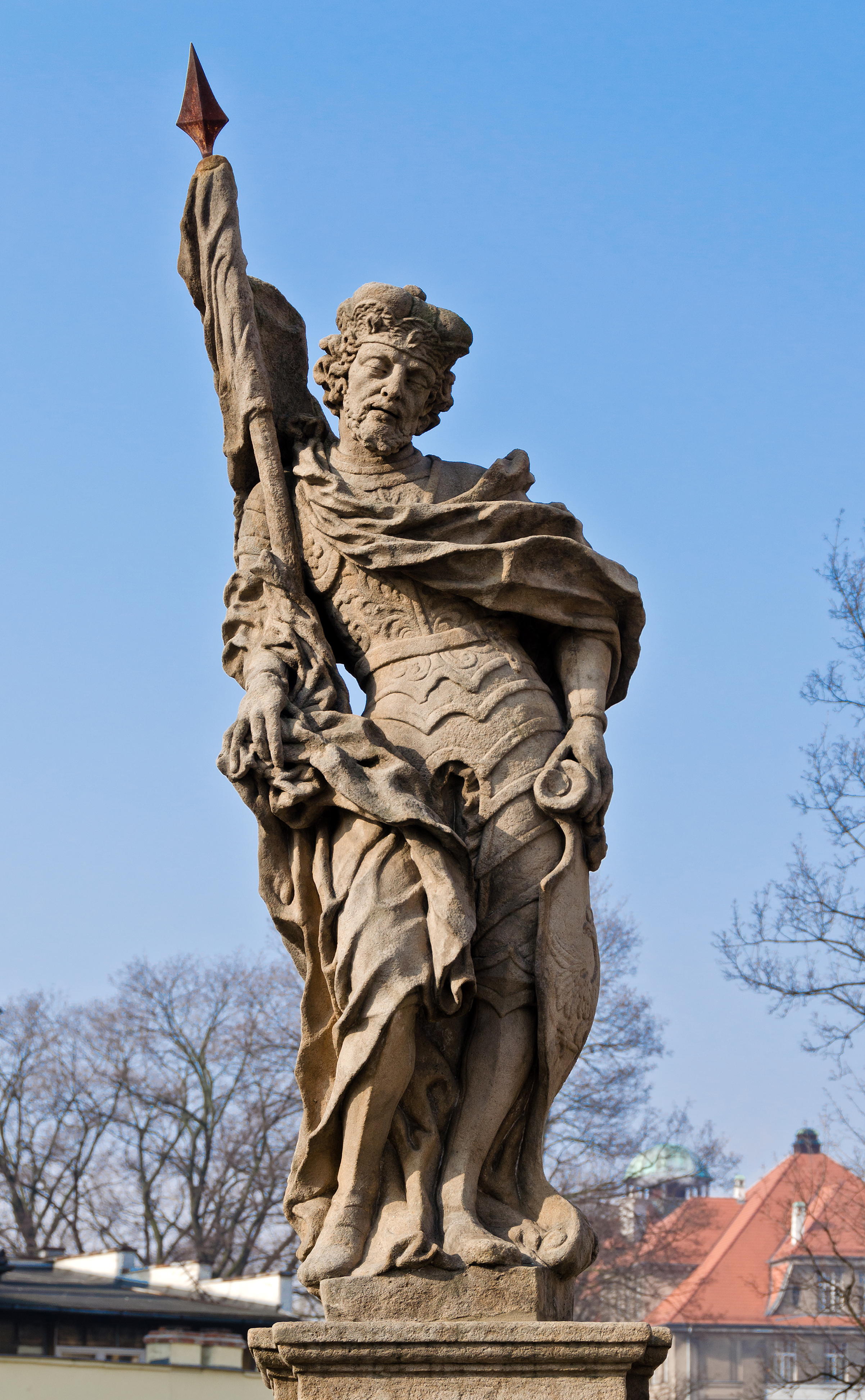 Saint Wenceslaus statue on the Gothic Bridge in Kłodzko